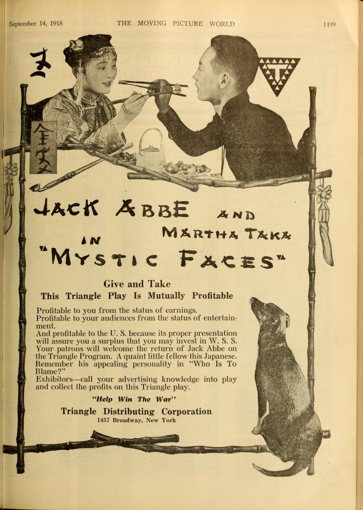 Advertisement in Moving Picture World for the American comedy drama film Mystic Faces (1918) with Yutaka Abe and Martha Taka.